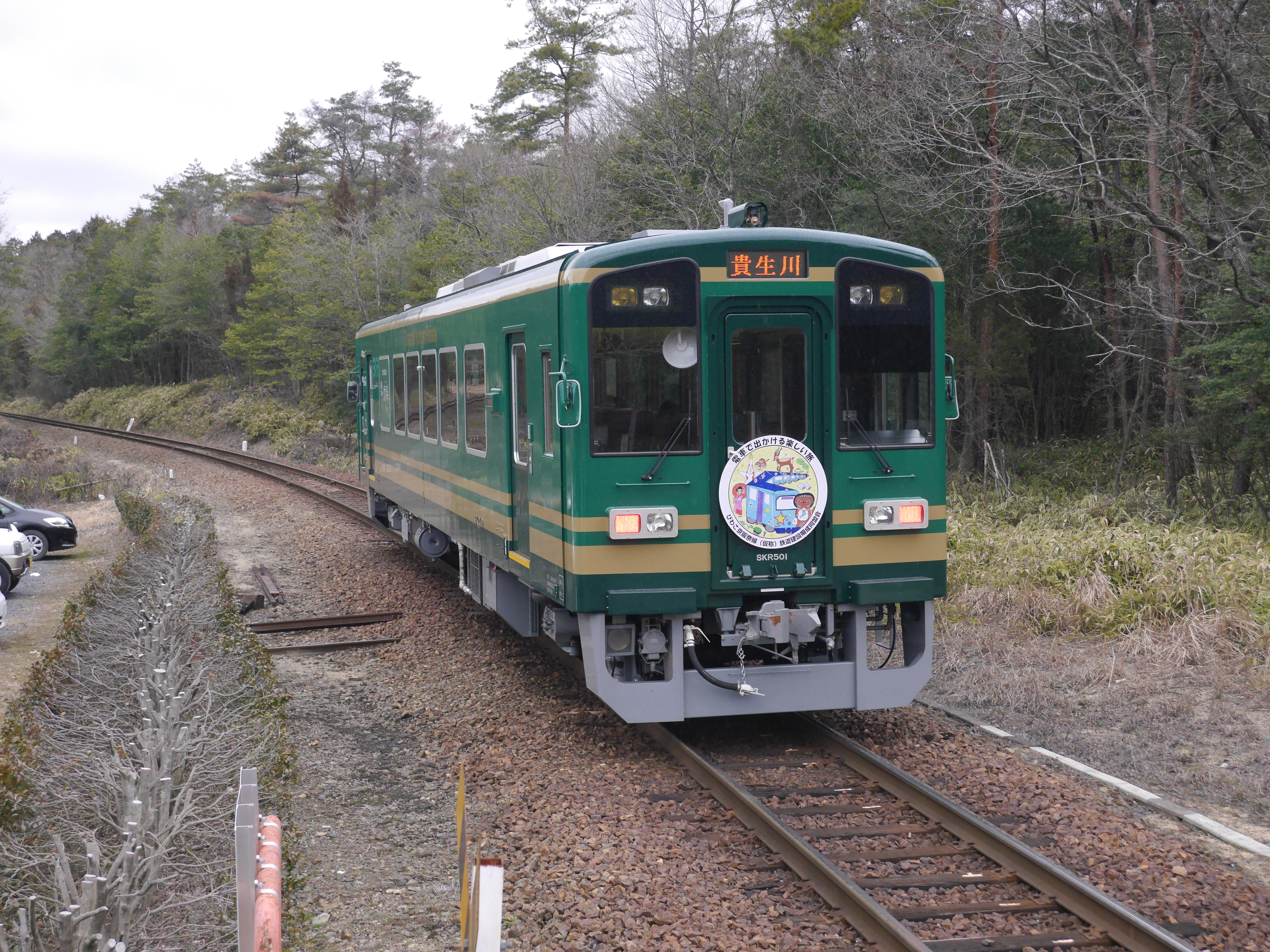 Shigaraki Kohgen Railway DMU car SKR501 leaving Shigarakigu Station